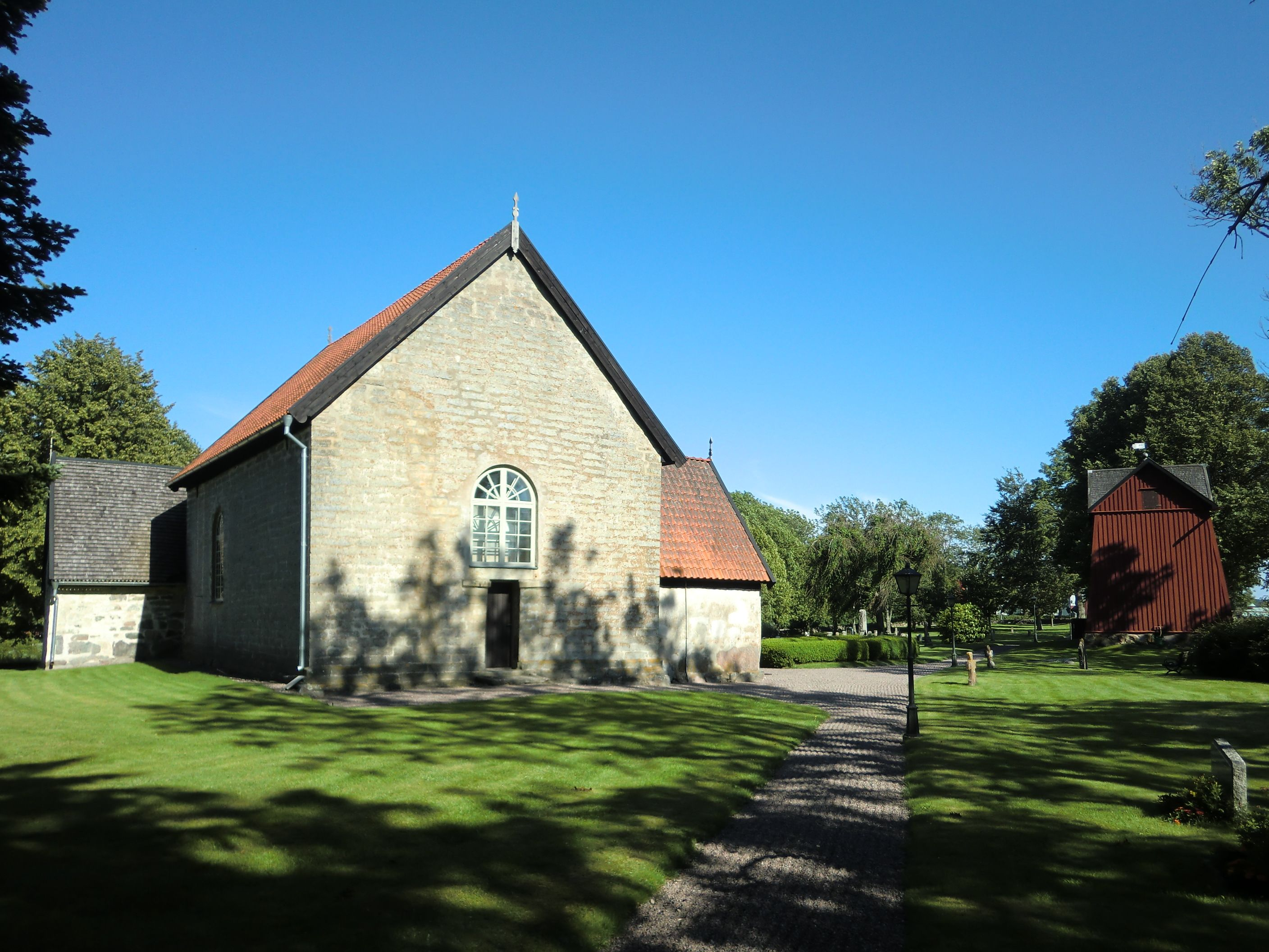 Skalunda church, Kålland, Sweden. View from northwest.